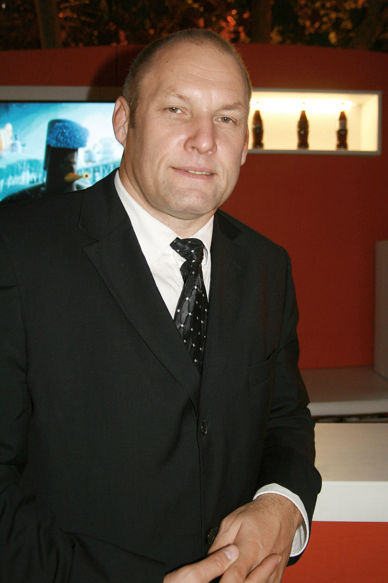 Peter Seisenbacher at the award show for the Austrian Sportspersonalities of the year 2009.